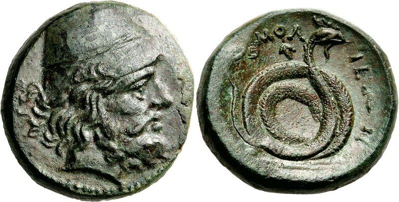 Thessaly, Homolion, 350 BC. Tetrachalkon (Bronze, 21mm, 9.24 g 3). Bearded head of Philoktetes to right, wearing conical pilos. Rev. ΟΜΟΛ-ΙΕΩΝ Serpent coiled to right; behind head, small bunch of grapes.